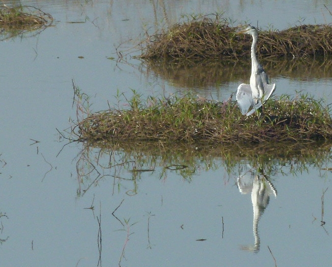 Grey heron sunning. Kolar, India